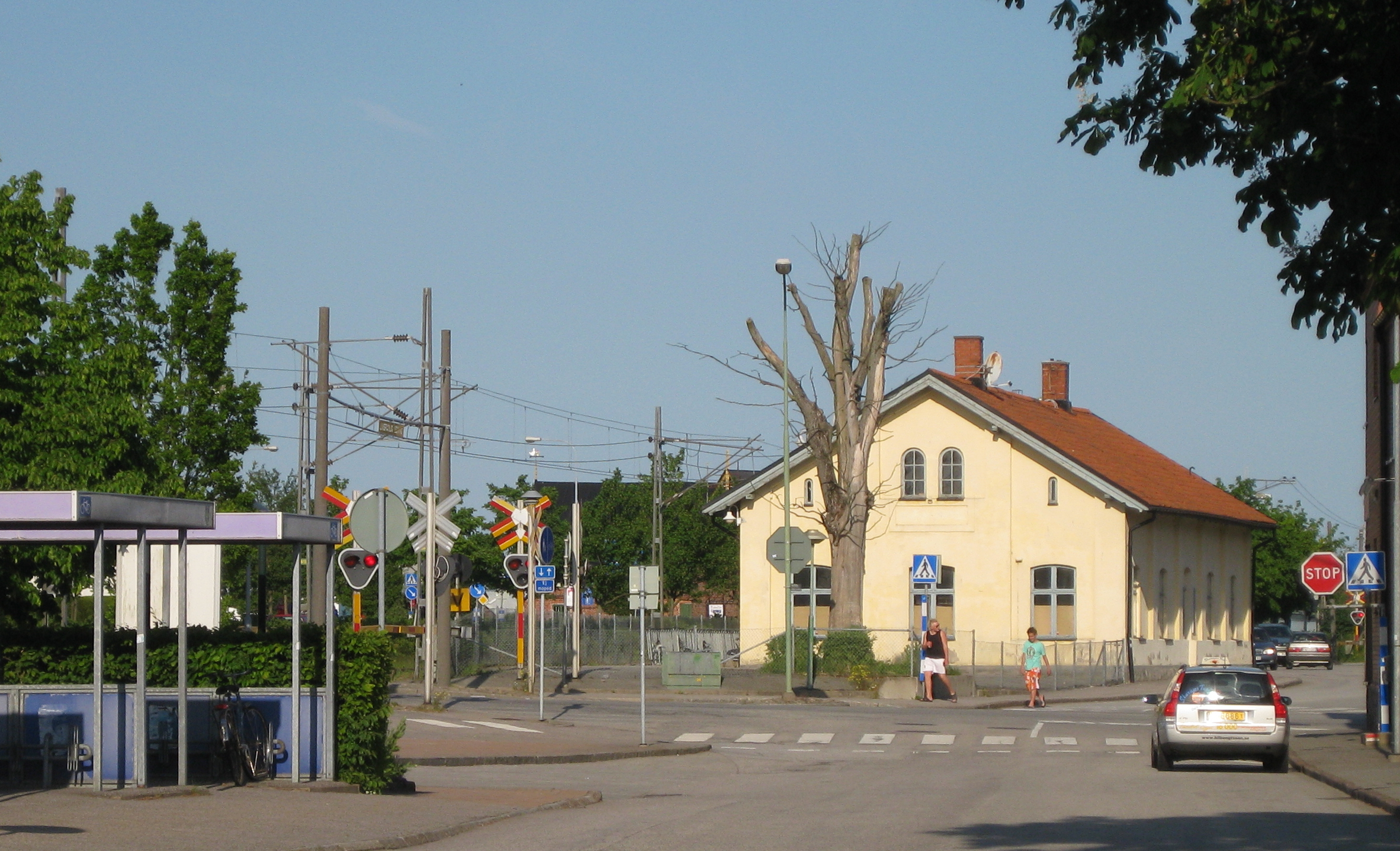 Former railway station in Skurup, Sweden